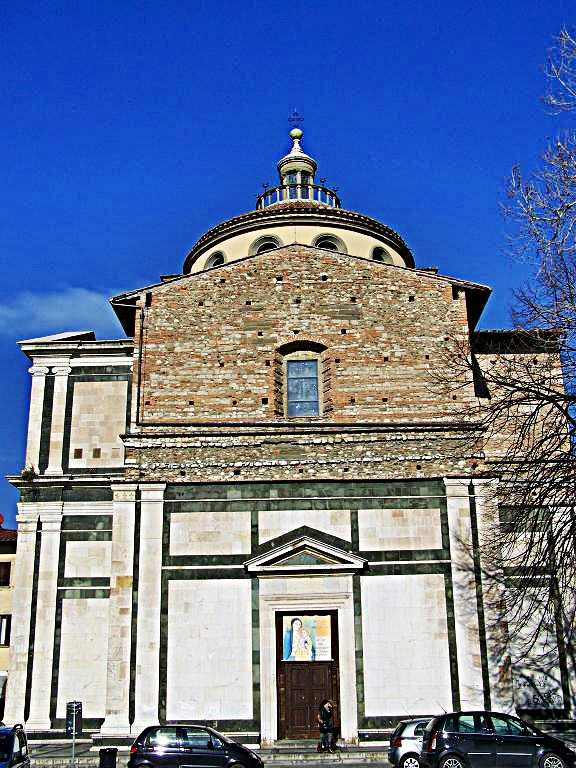 facade